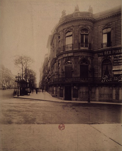 The Pavillon du Hanovre in its original place, on the Boulevard des Italiens, Paris